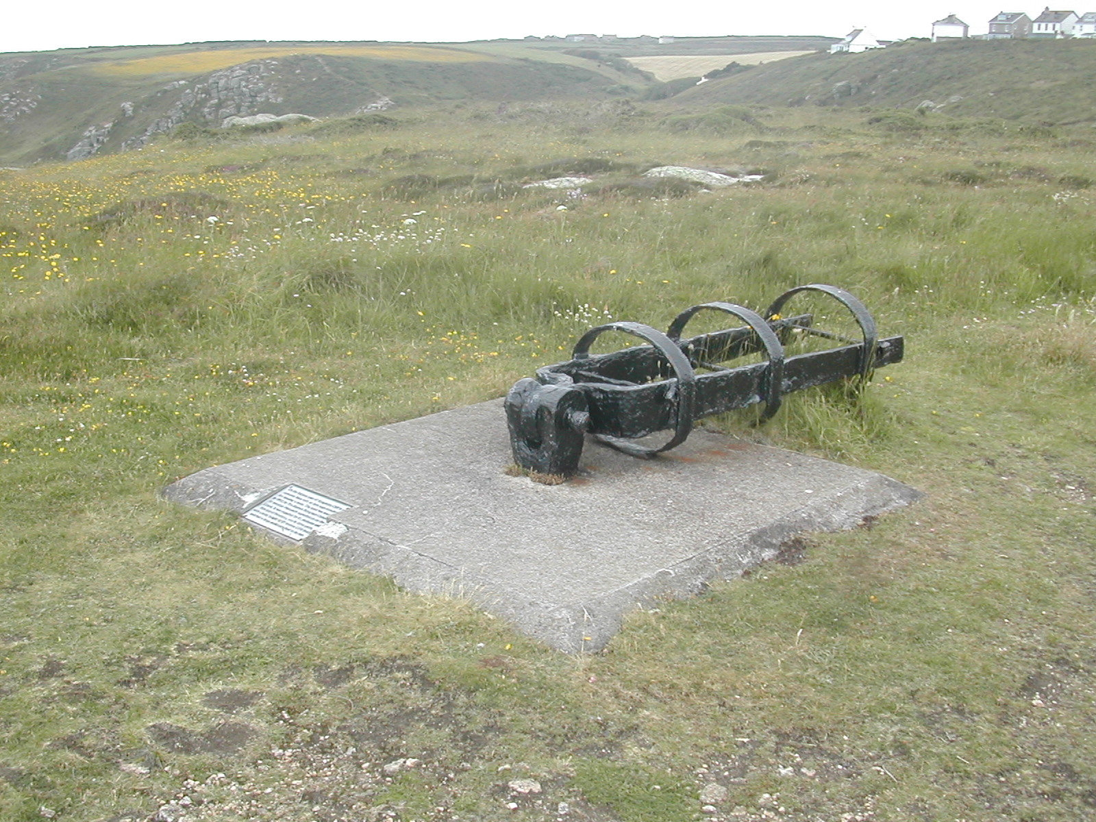 The original mast pivot used to support an antenna mast to monitor Marconi's original test transmissions from Poldhu. Located at Pedn men a mere headland, near Porthcurno, Penzance, Cornwall, United Kingdom Author Chris Angove June 2006